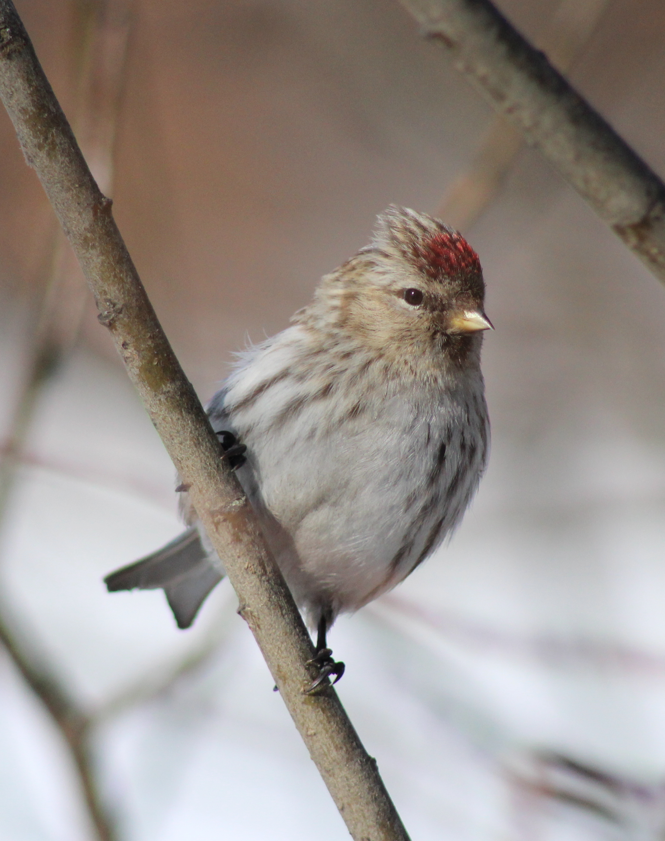 A common redpoll (Carduelis flammea) in Hollihaka park in Oulu, Finland.